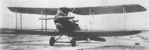 Rumpler C.VII Česky: Rumpler C.VII